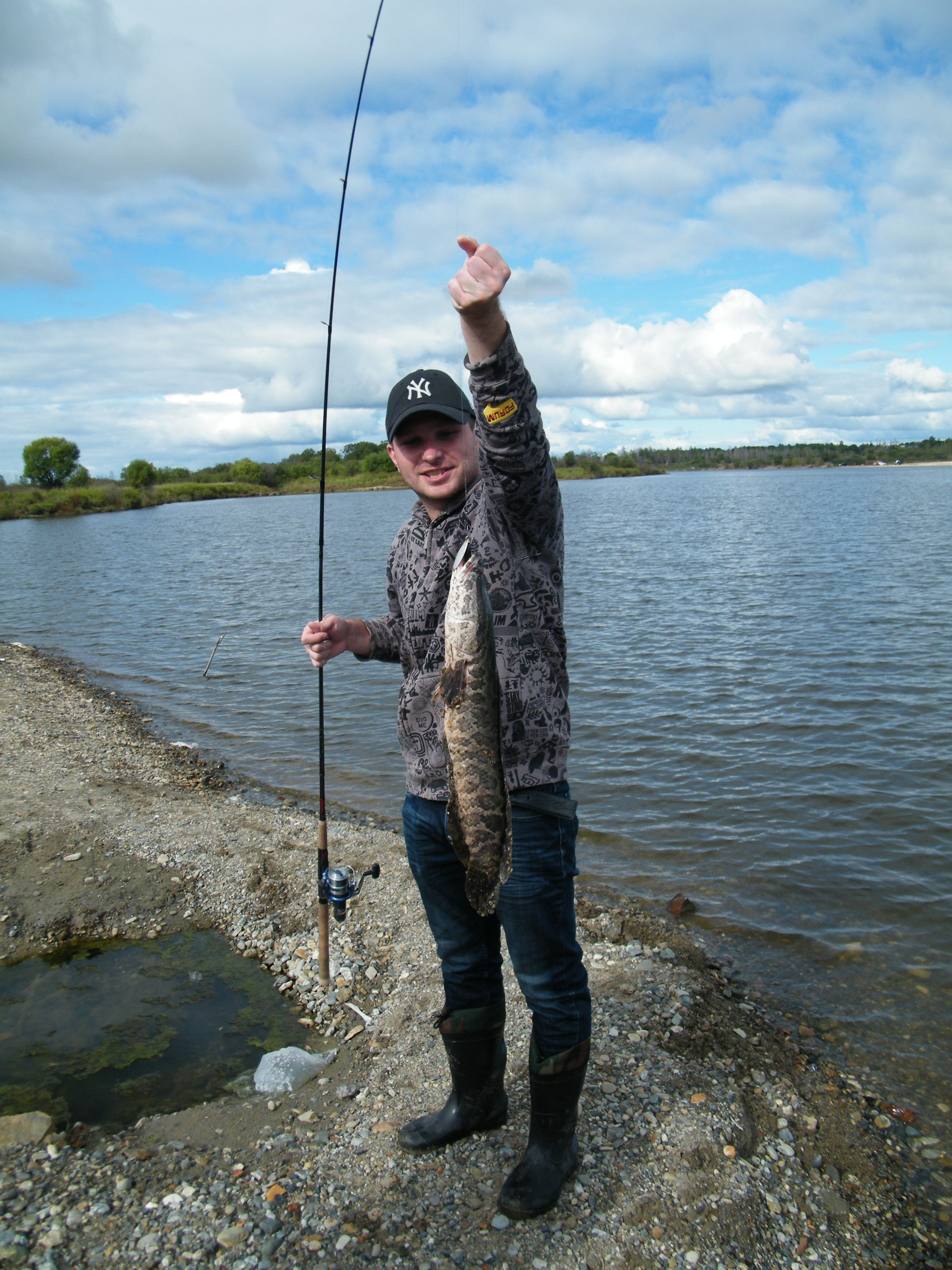 Channa argus